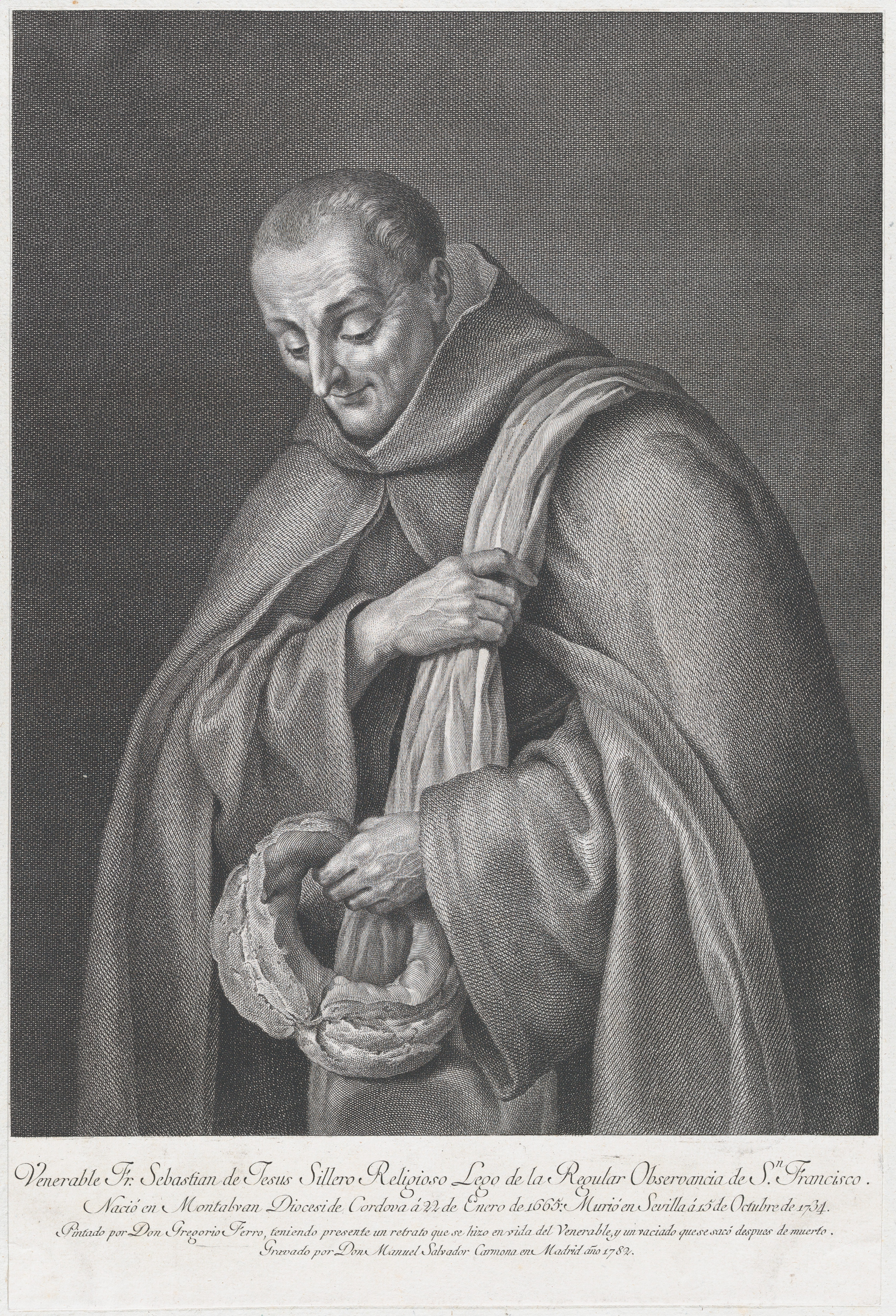 Print; Prints